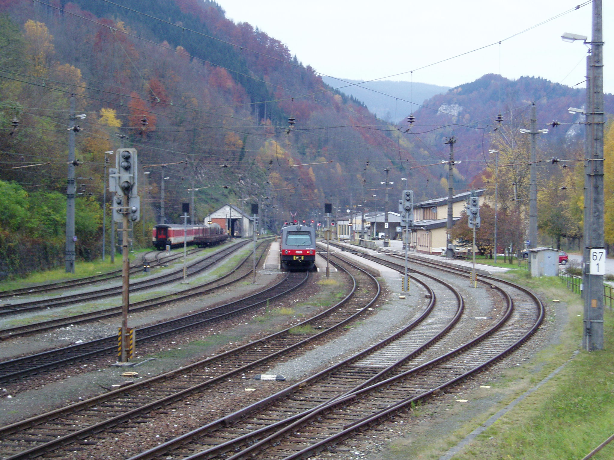 Kleinreifling train station in Upper Austria